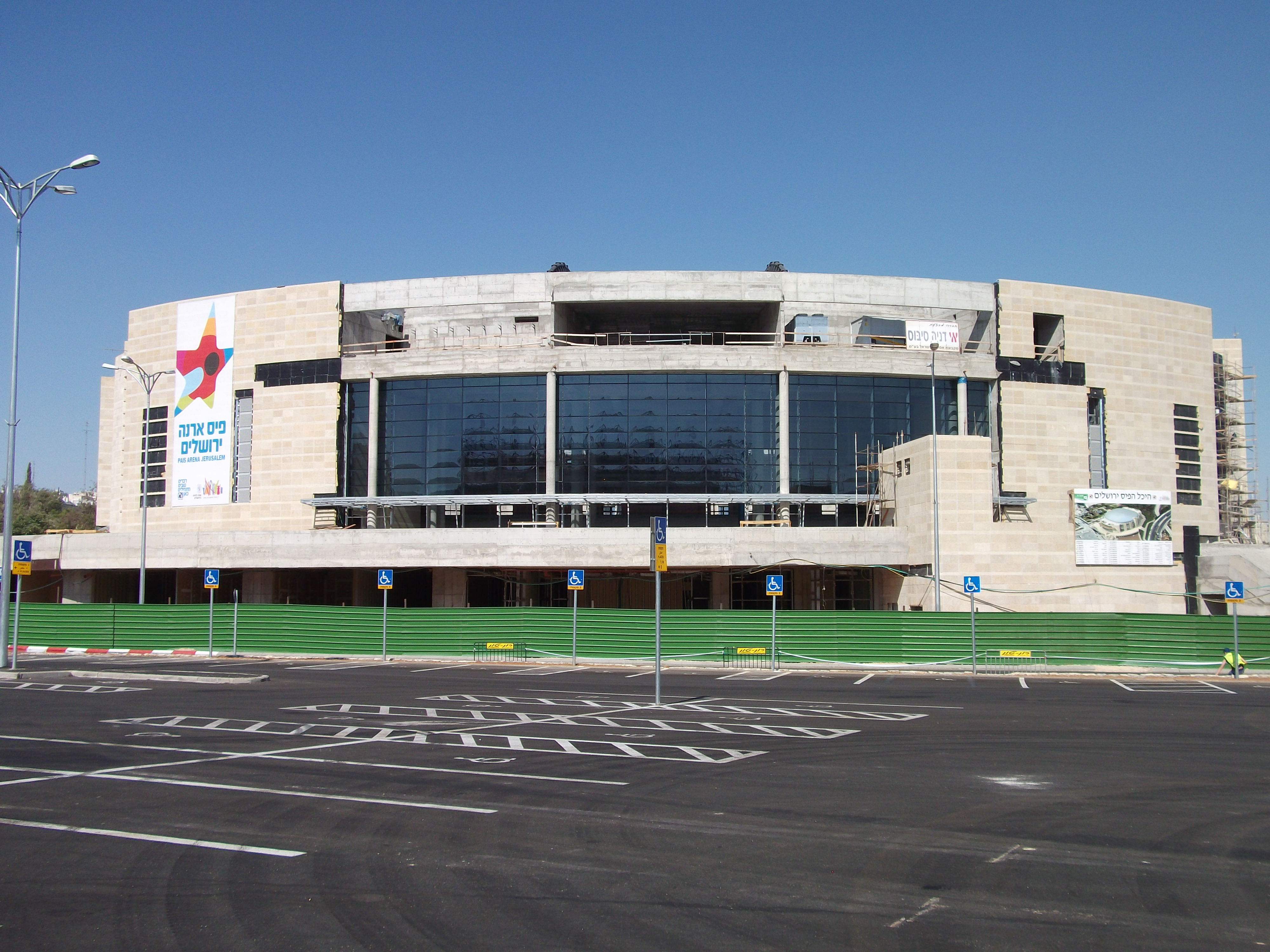 Jerusalem Arena